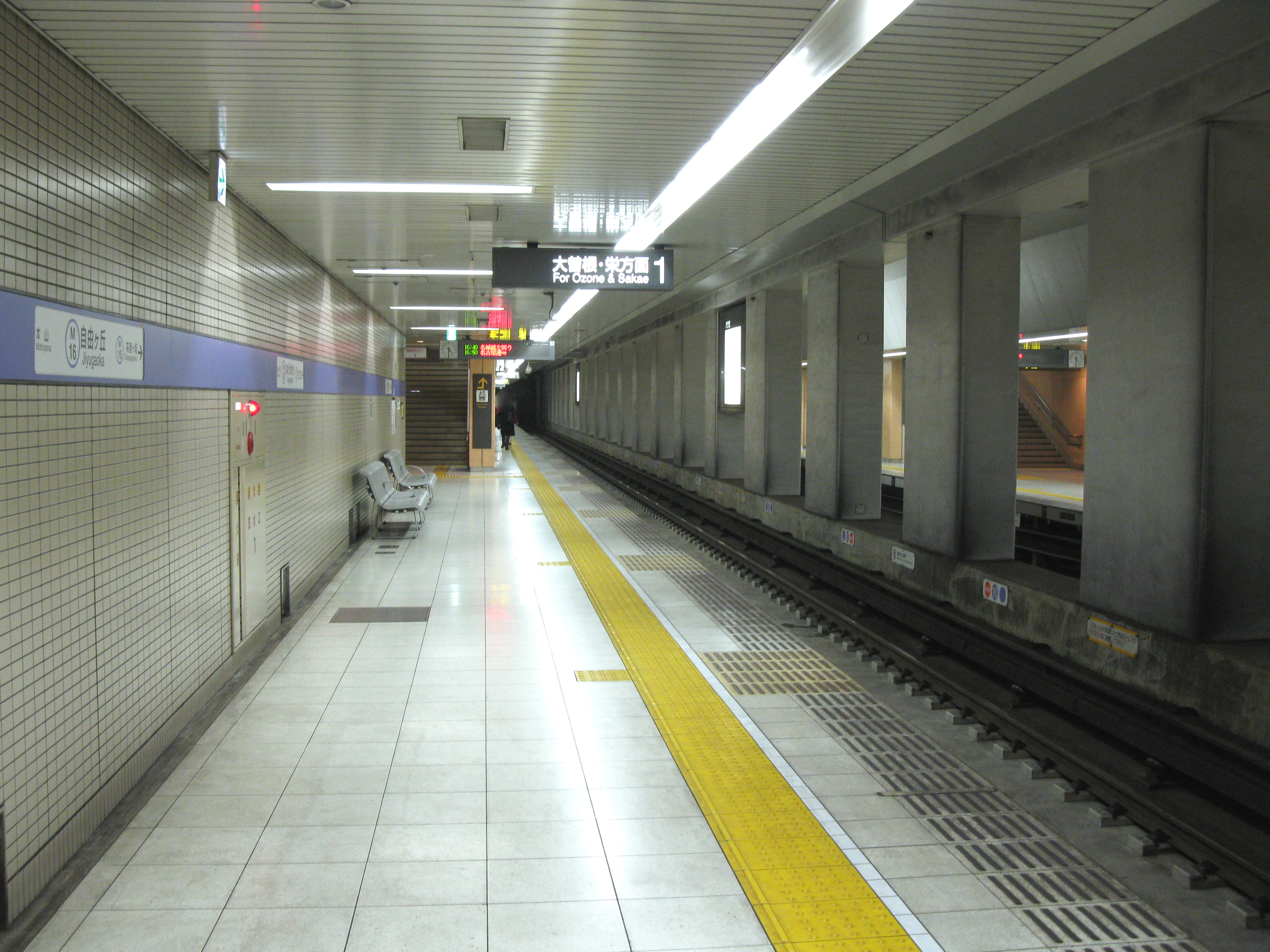 Jiyūgaoka Station platform (Nagoya Municipal Subway Meijō Line)